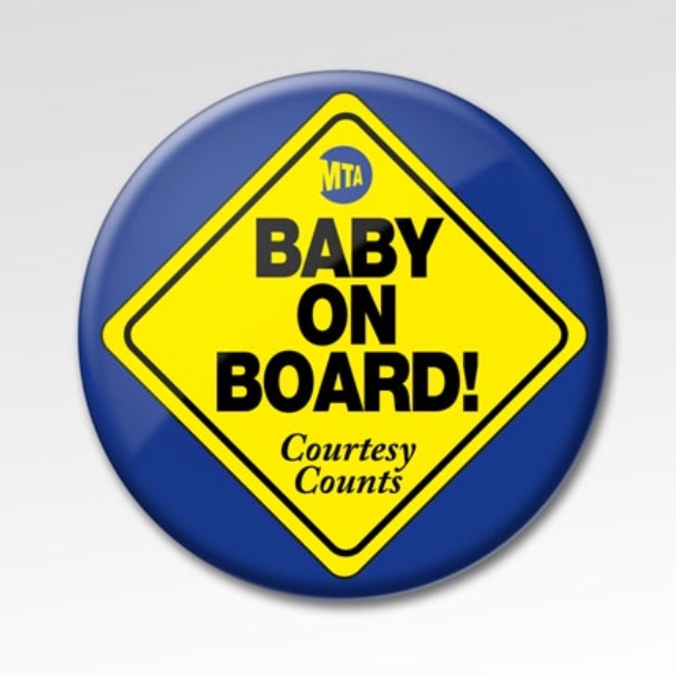 The Metropolitan Transportation Authority (MTA) today launched a new awareness campaign to encourage customers to move their feet and offer a seat for pregnant riders, seniors and those with a disability who are seeking seats. The pilot program, which begins on Mother’s Day and runs through Labor Day, will examine ways to encourage courtesy by helping riders easily identify fellow customers with specialized needs who need a seat.